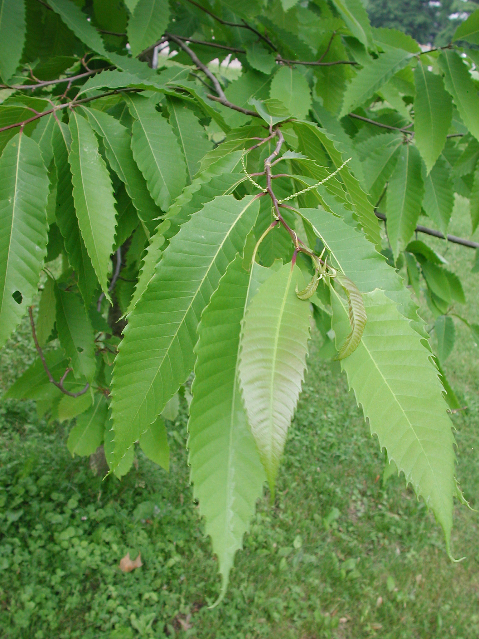 Late spring foliage of the American chestnut Castanea dentata. Tree located in West State Street Park, Athens, Ohio.